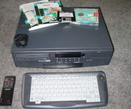 The Olivetti Envision P75, with manuals and peripherals